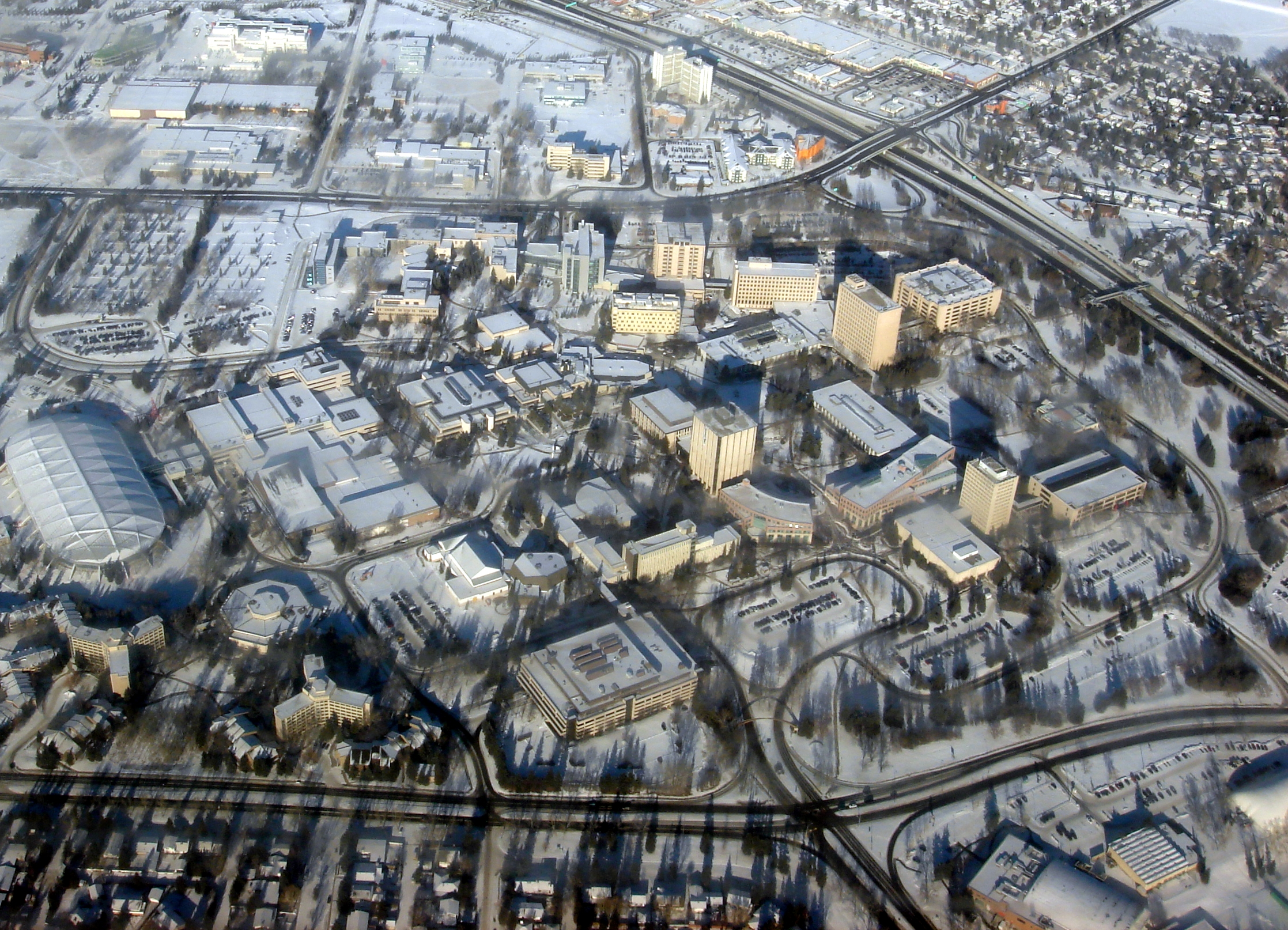 Aerial view of the University of Calgary grounds, Calgary, Alberta, Canada